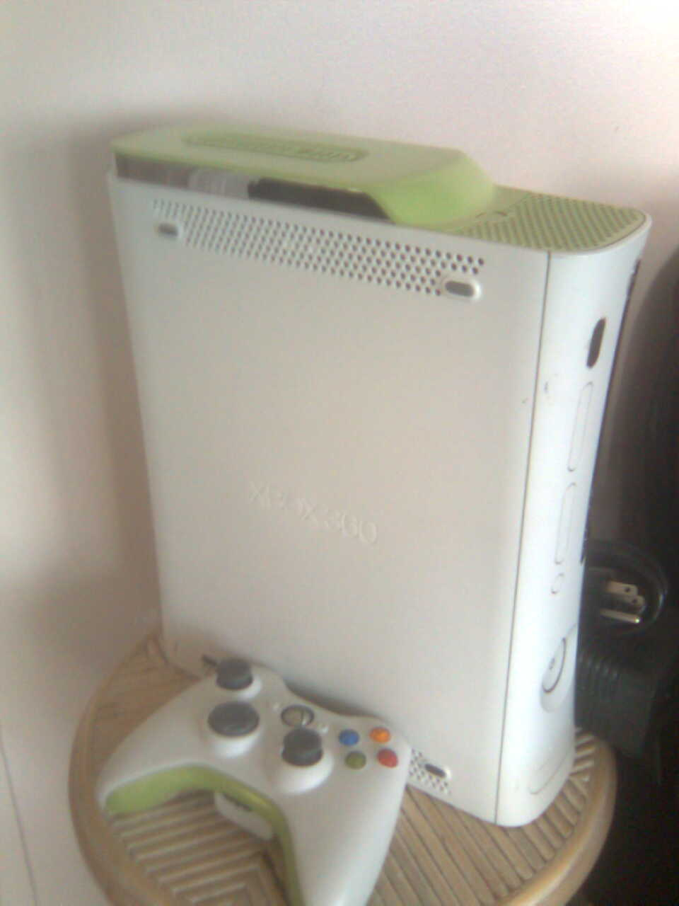 My personal Launch Team Console